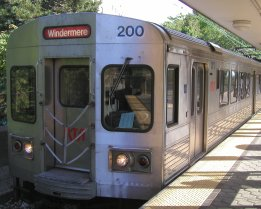 Alex Zorach took this picture.